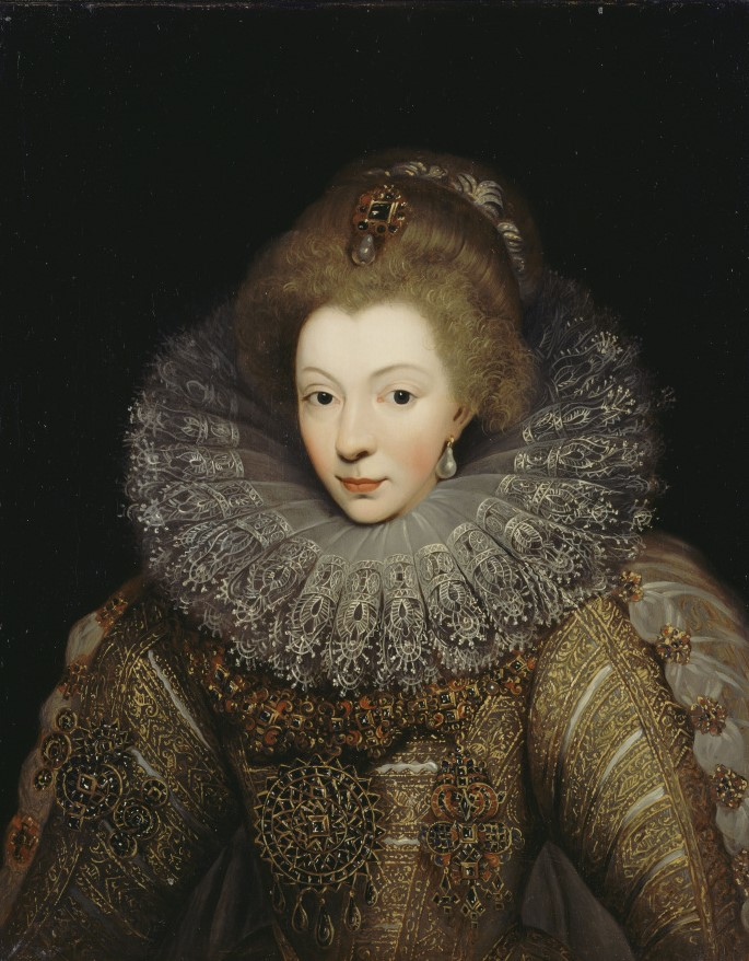 Portrait of Catherine de Bourbon (1559-1604) (copy)